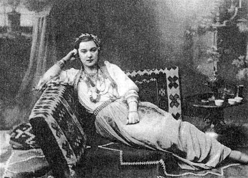 Umihana Čuvidina (c. 1794 – c. 1870) was an Ottoman Bosniak poetess and the earliest Bosnian female author whose work survives to this day.